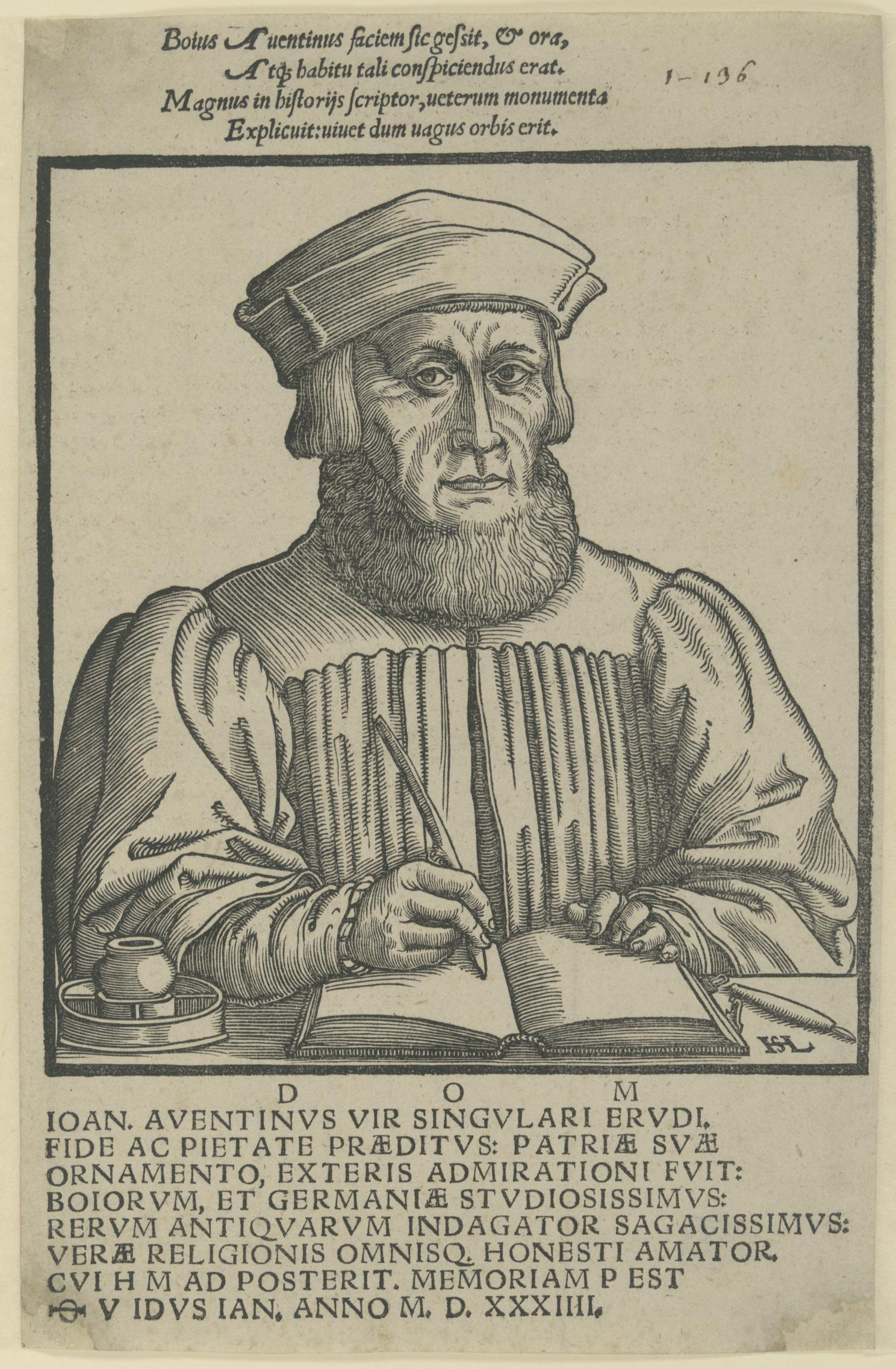 Posthumous image by Hans Sebald Lautensack, dedication for Johannes Aventinus in the book “Annalium Boiorum libri septem”, published in 1554 by Alexander and Samuel Weißenhorn in Ingolstadt. As per description in Bildindex it should be the title page, but compare version in the Internet Archive, where it is page 15: Annalium Boiorum libri septem Ioanne Auentino autore, p. 15; link to title page: Annalium Boiorum libri septem Ioanne Auentino autore.